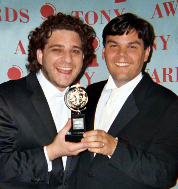 Robert Lopez and Jeff Marx at 2004 Tony Awards photo copyright owned by Robert Lopez and Jeff Marx